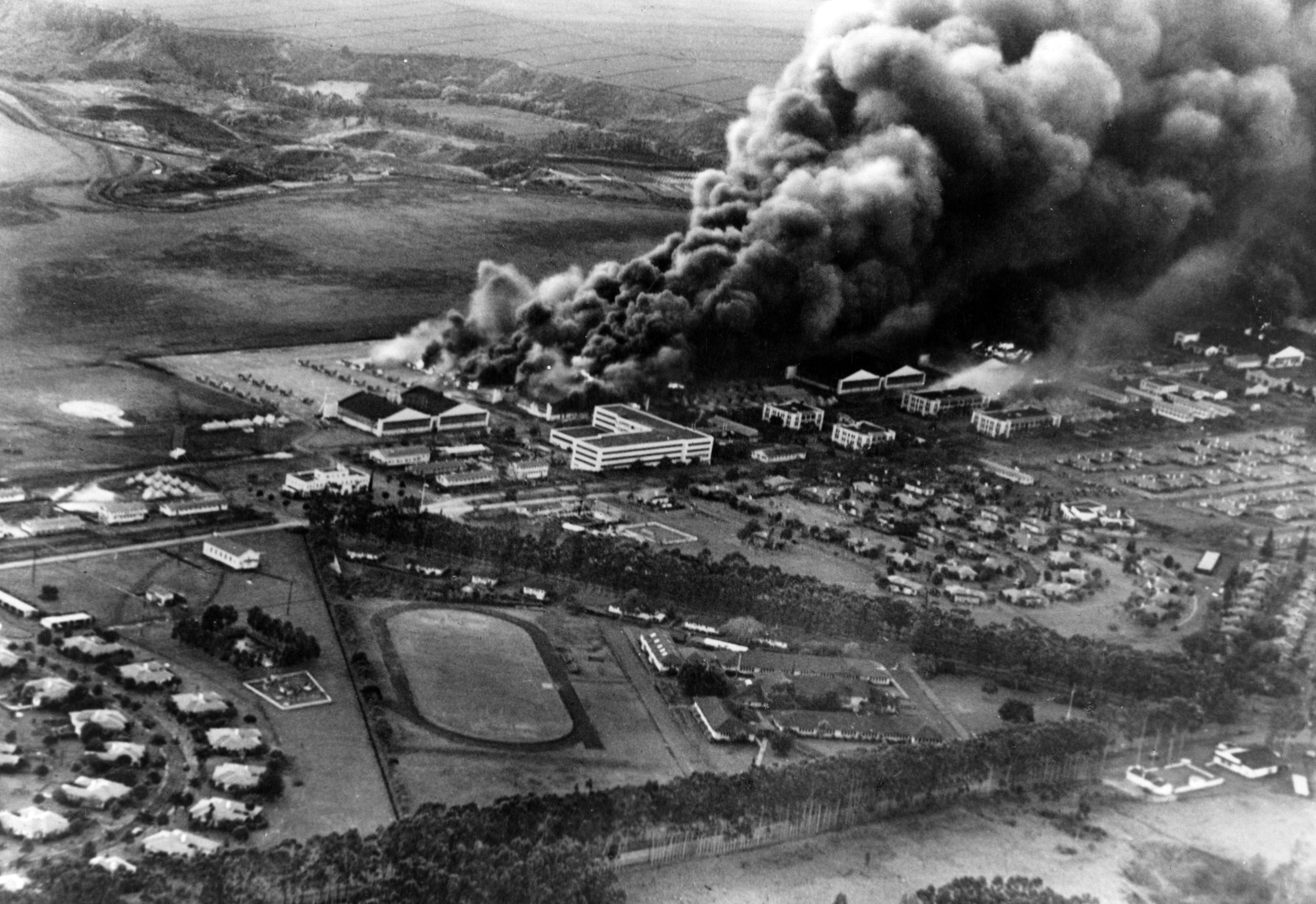 Planes and hangars burning at Wheeler Field during the Japanese attack on Pearl Harbor, 7 December 1941.